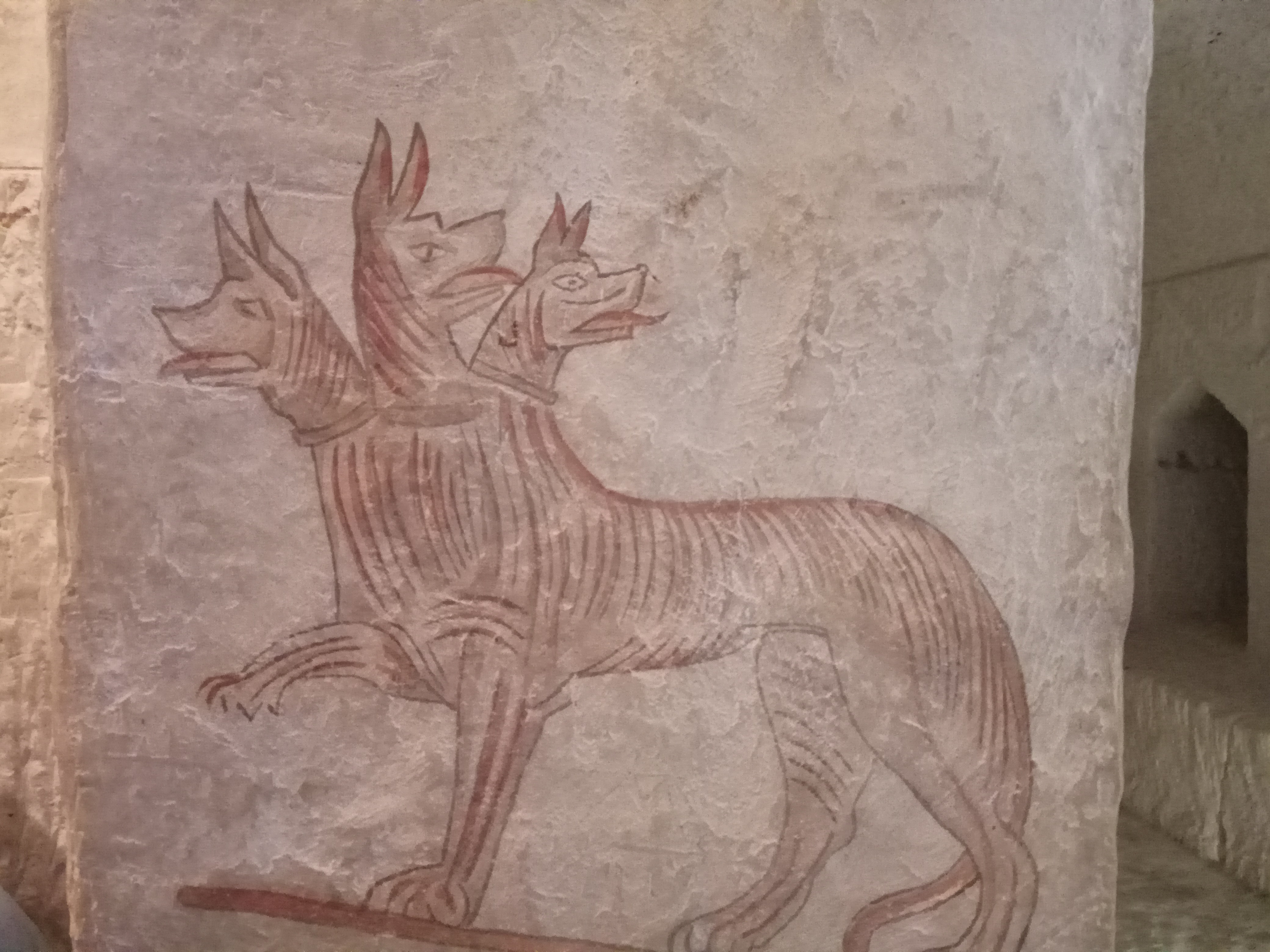 The Sidonian Cave at Beit Guvrin